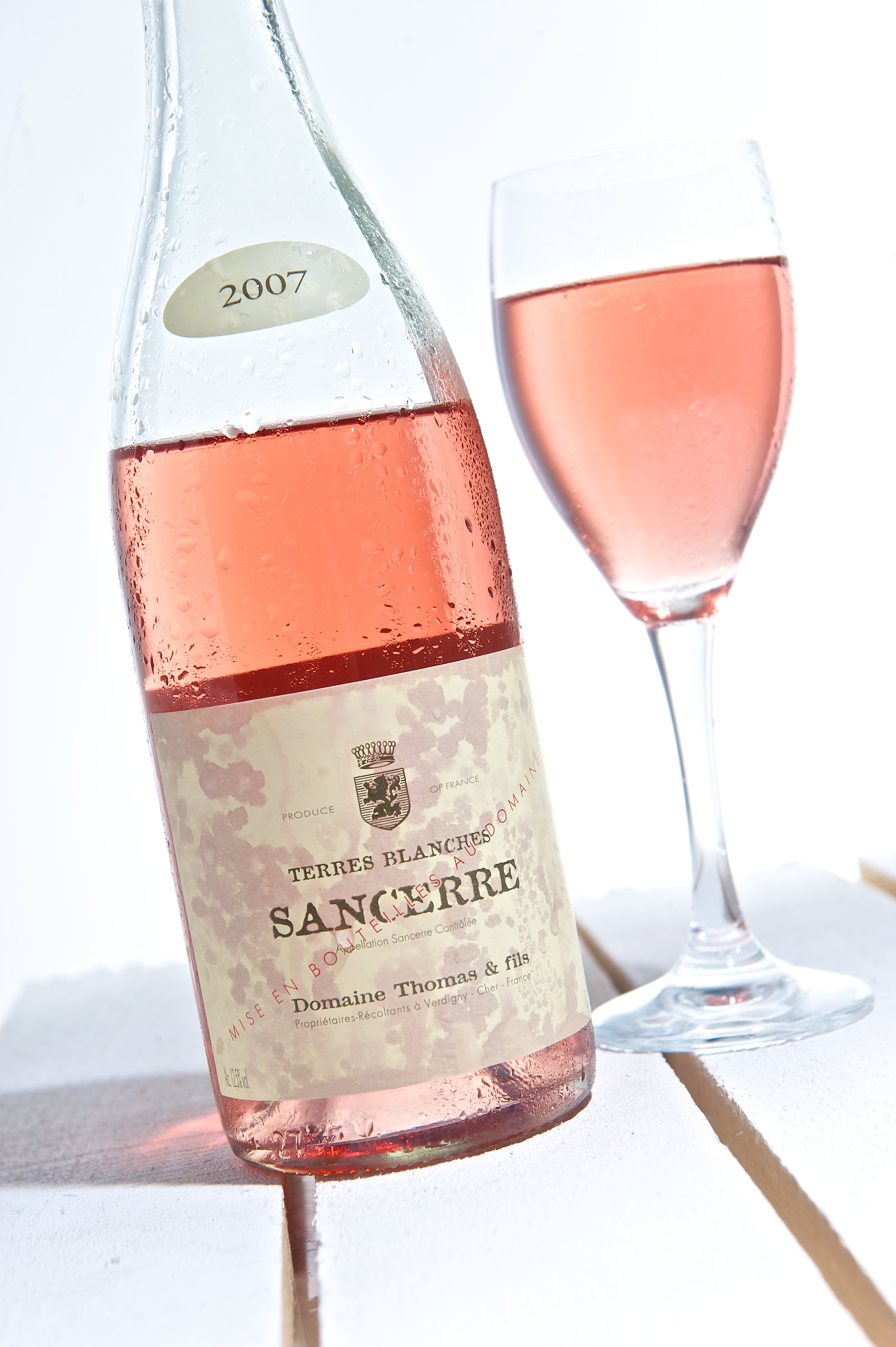 A rose wine made from Pinot Noir in the Loire wine region of Sancerre in France.